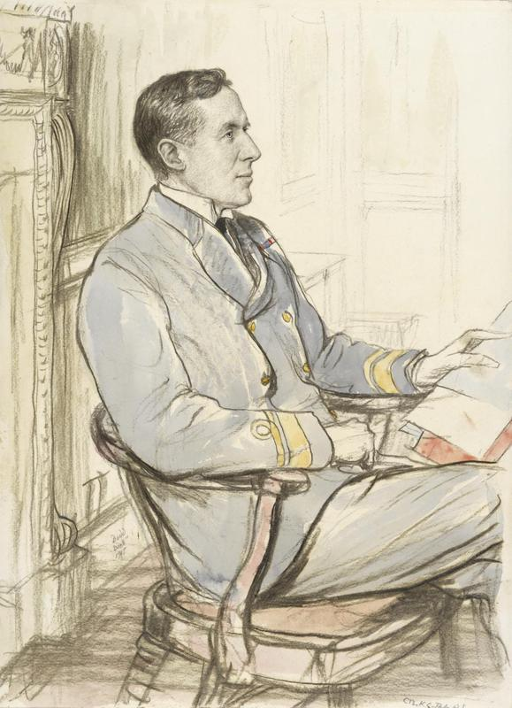 Vice-admiral Sir George Price Webley Hope, Cb image: a three quarter length portrait of Vice Admiral Sir George Hope in Royal Navy uniform and sitting on a chair holding some papers in his left hand. He is shown in profile, with a grand fireplace behind him to the left.